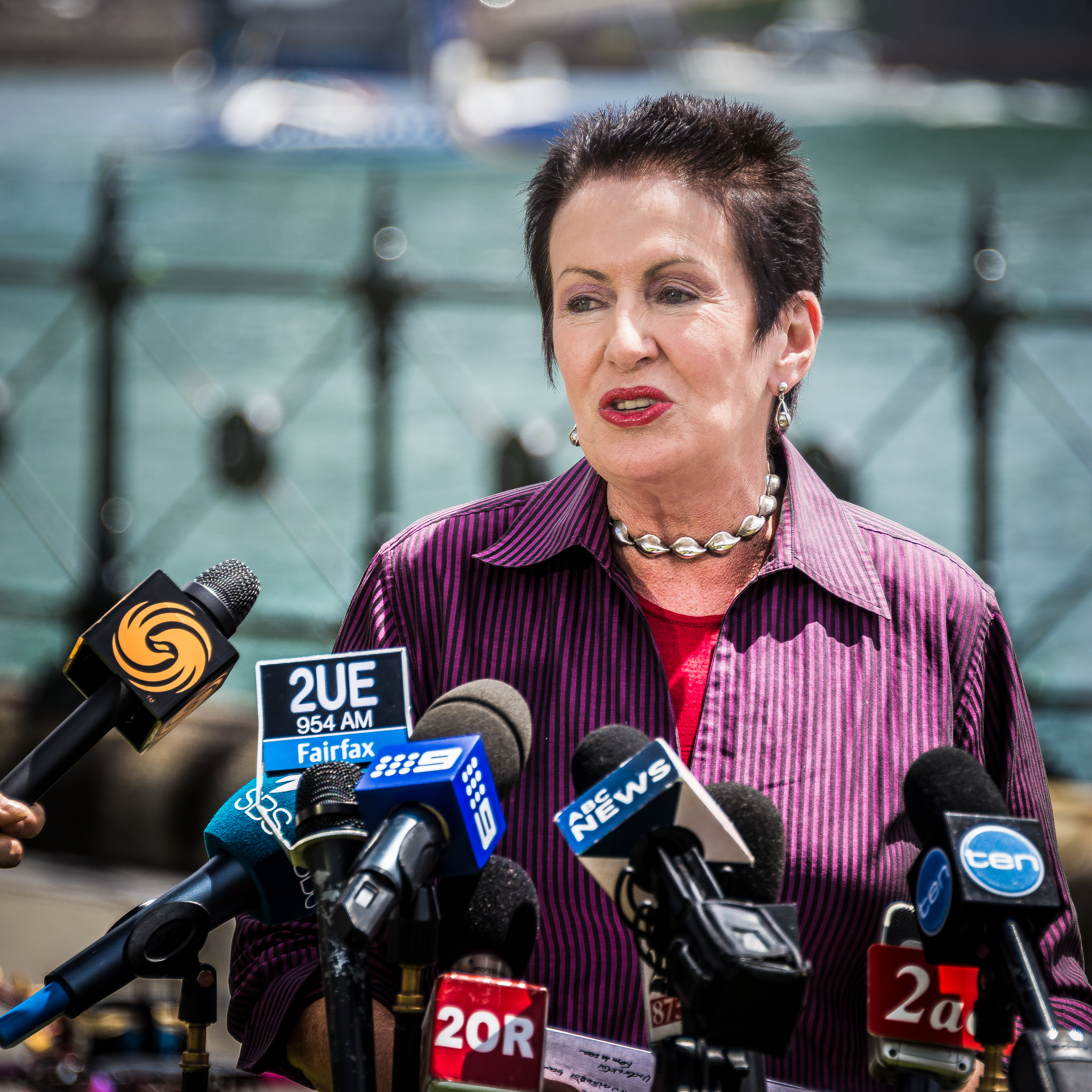 Clover Moore speaks at the media briefing on New Years Eve.